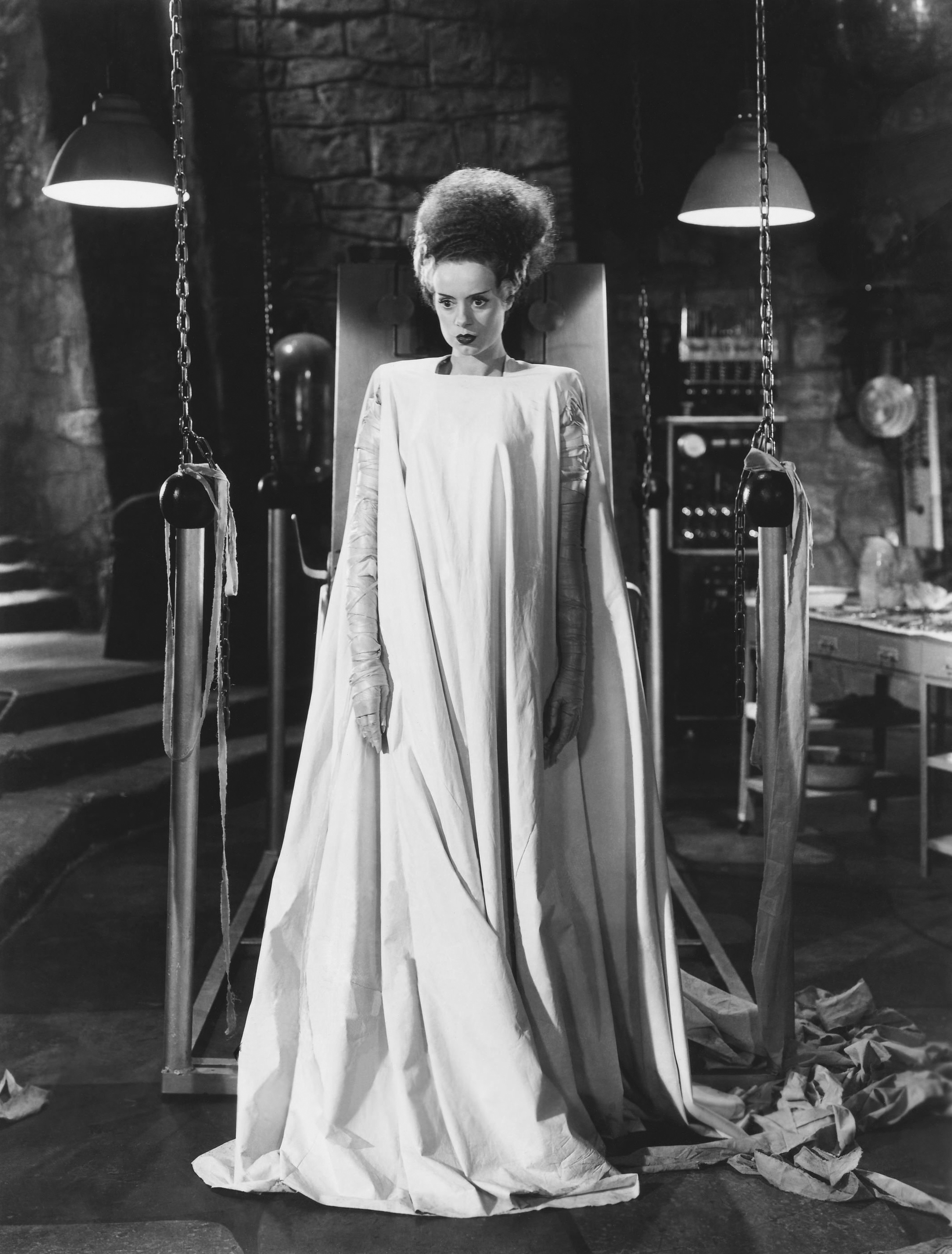 Elsa Lanchester in the movie "Bride of Frankenstein" (1935).